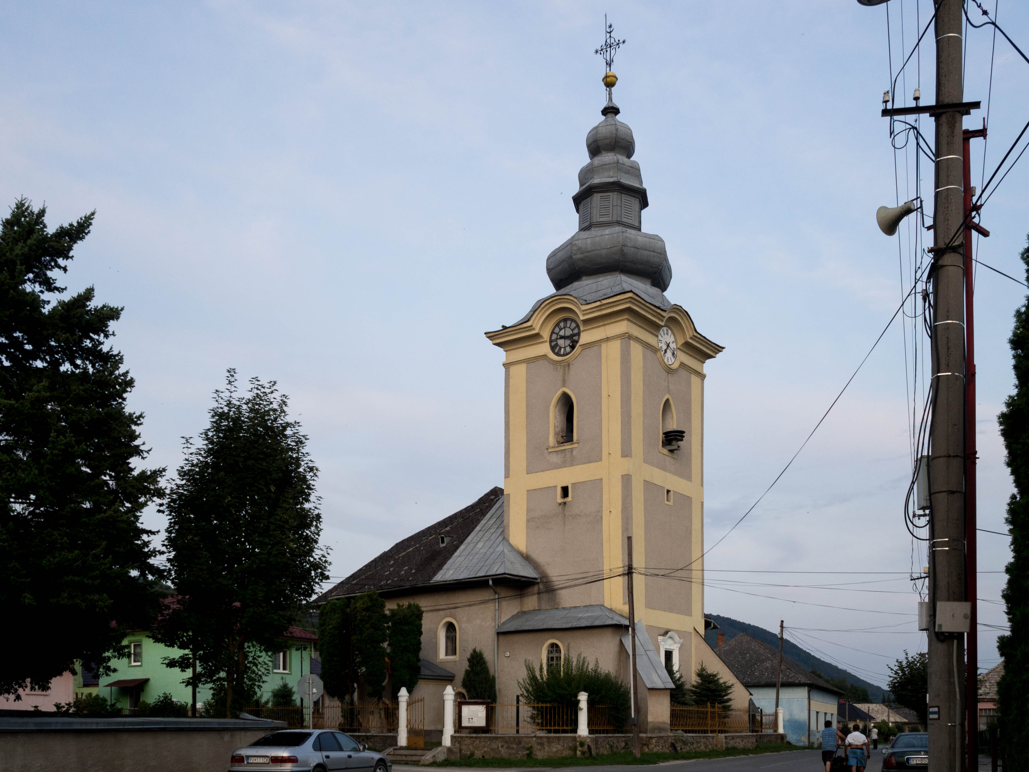 Lutheran Church in Slavošovce, Slovakia. Gothic building from 14th century, rebuilt in baroque style after 1712.